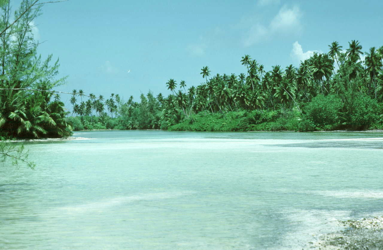 Diego Garcia Atoll, BIOT. Extensive area of shallows.